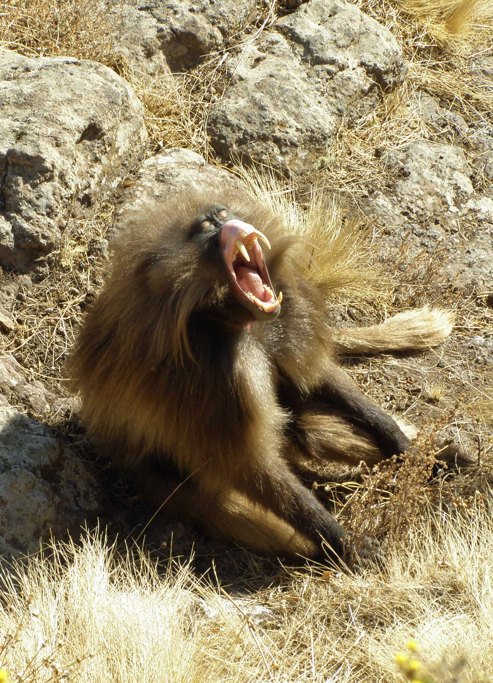 Ethiopia - Park of the Simian's moutains - Baboon waking up